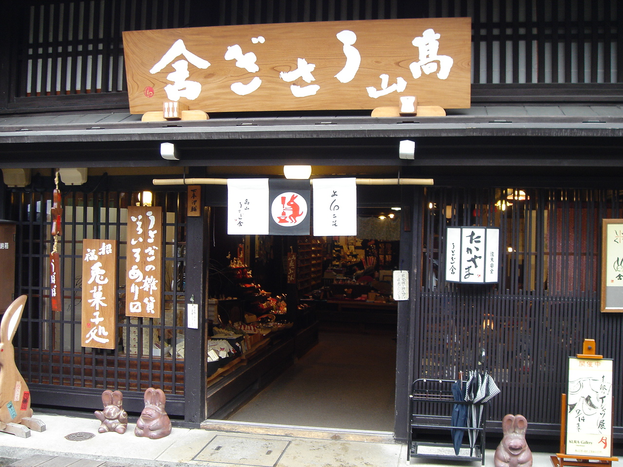 Takayama Usagi-ya shop of miscellaneous rabbit-themed goods in Takayama.